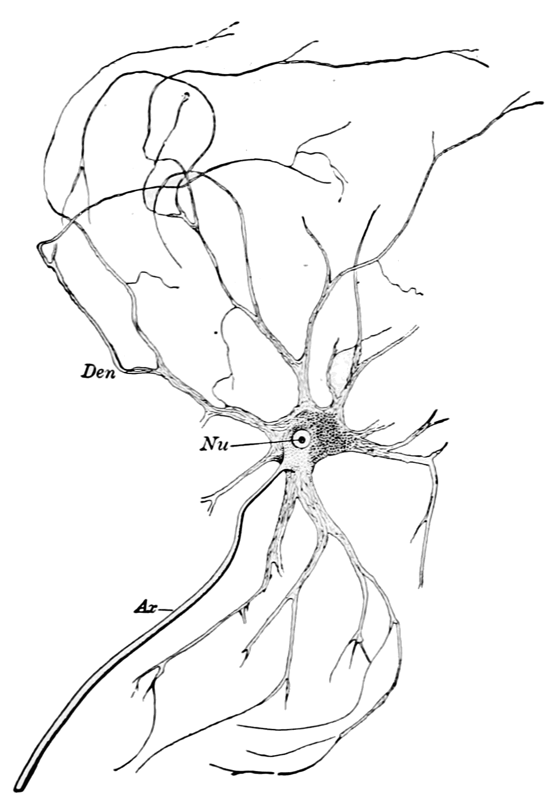 A single isolated motor nerve cell of an ox spinal cord